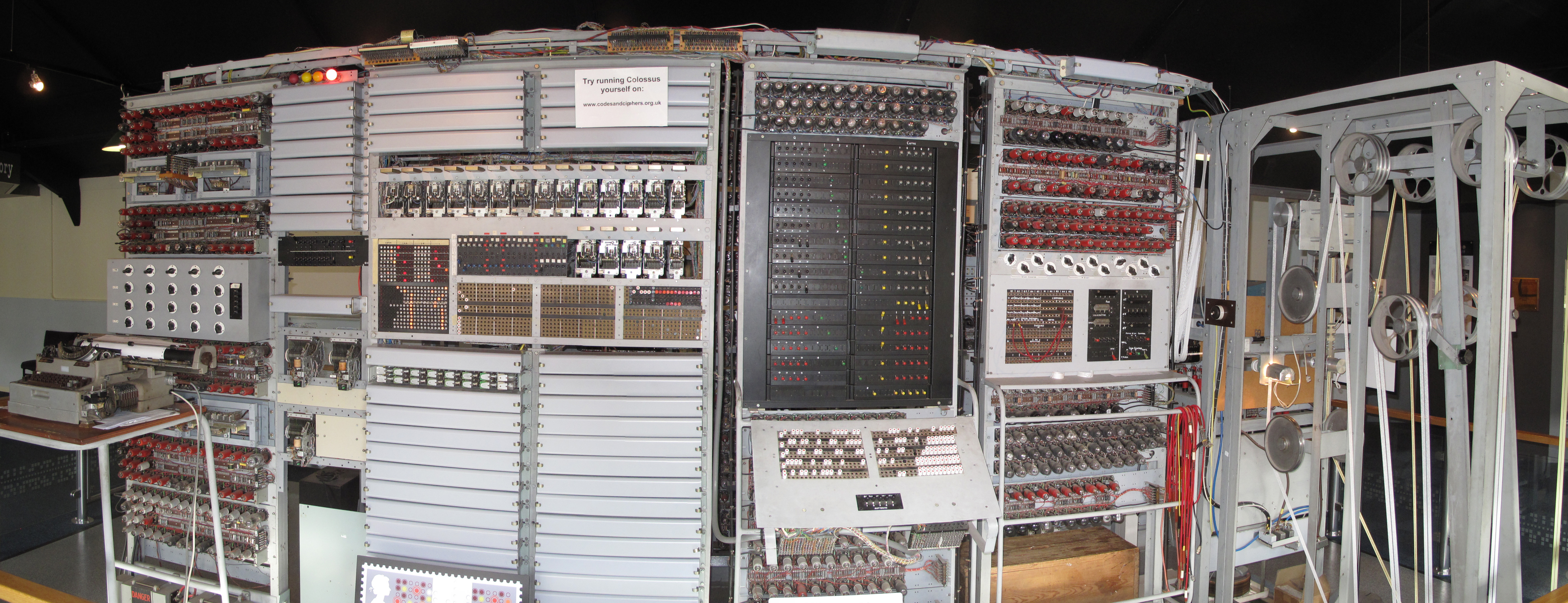 Frontal view of the reconstructed Colossus at The National Museum of Computing, Bletchley Park